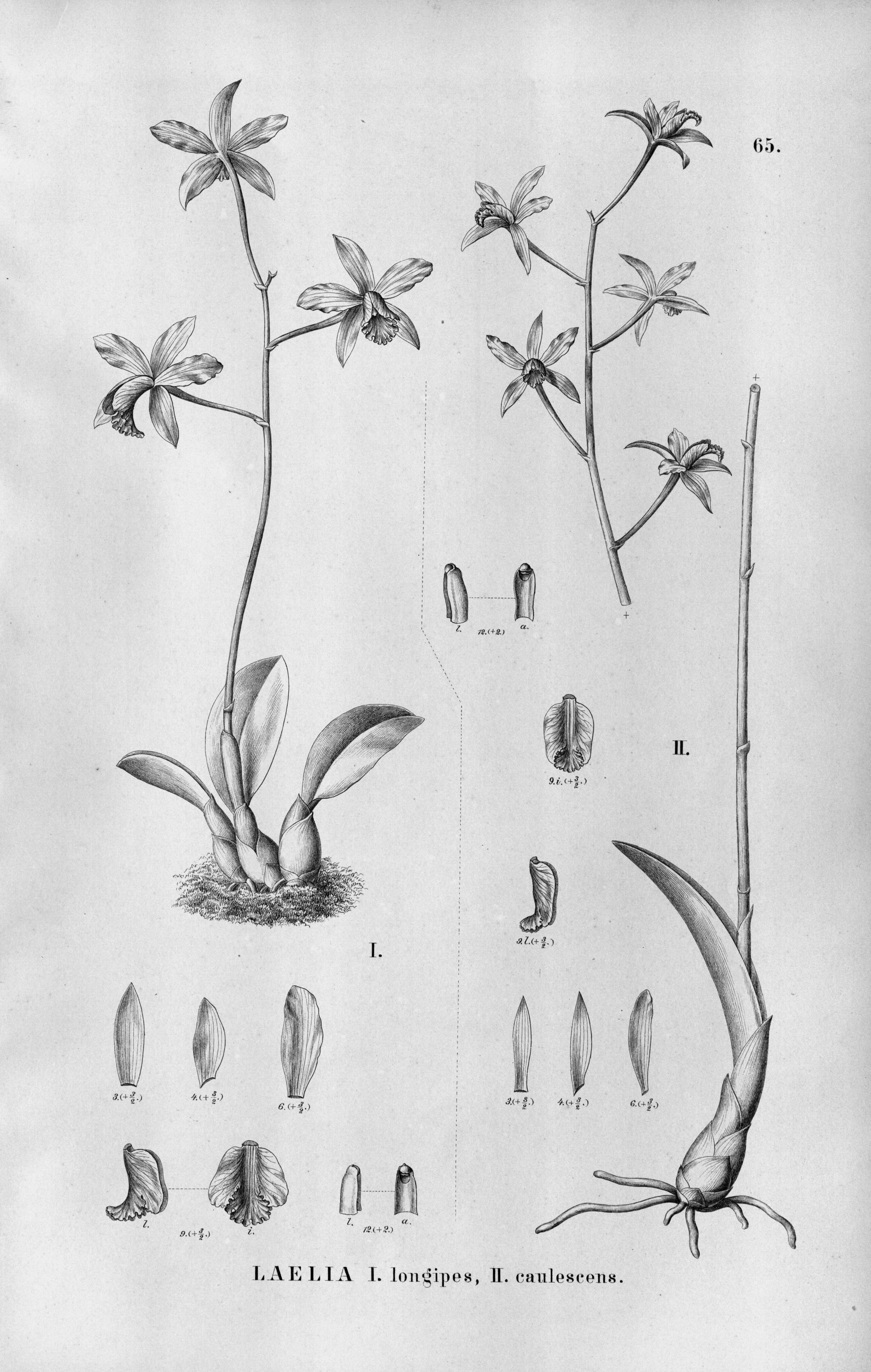 Illustration of : I. Cattleya longipes (as syn. Laelia longipes) II. Cattleya caulescens (as syn. Laelia caulescens)